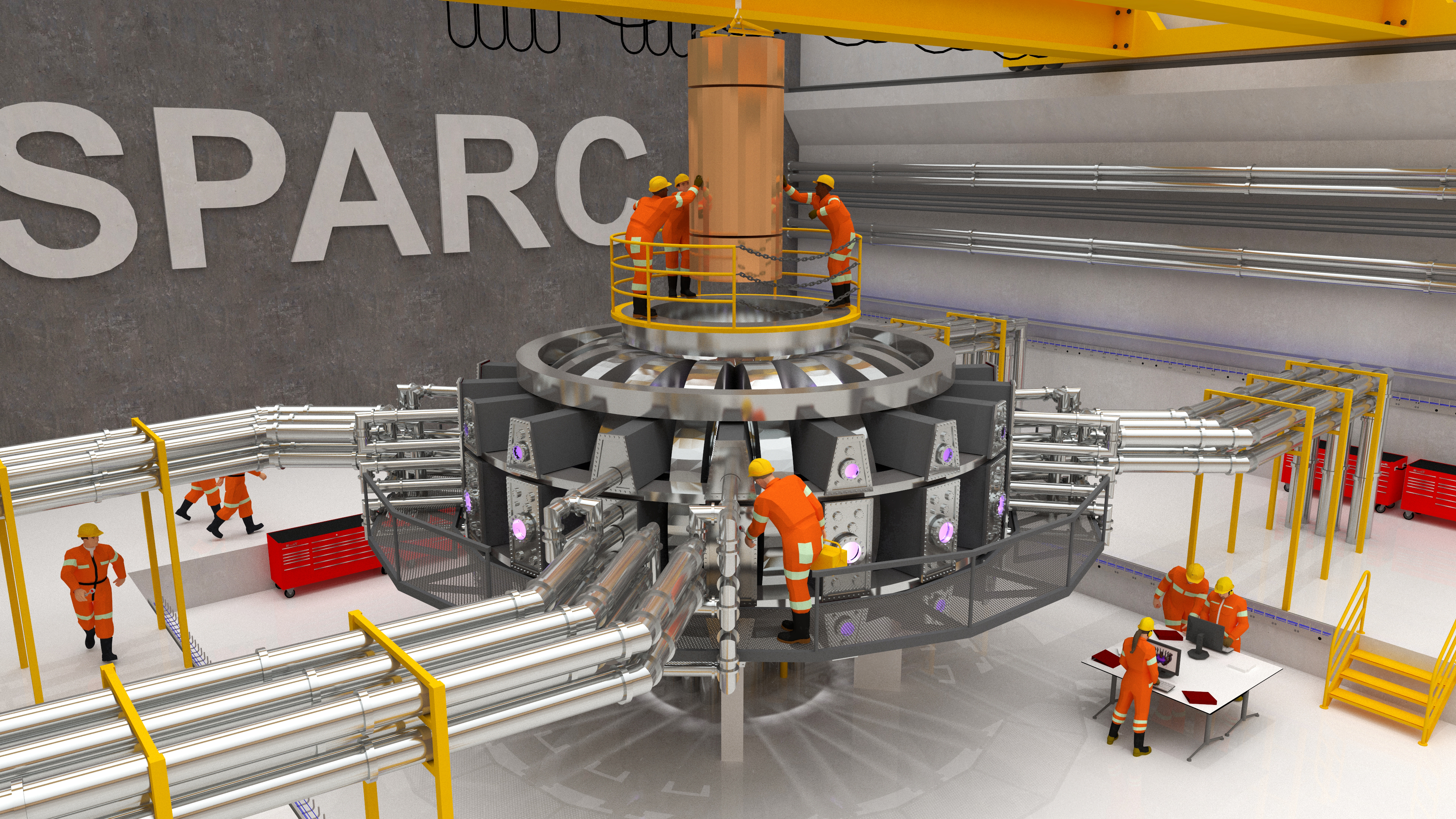 Visualization of the proposed SPARC tokamak experiment. Using high-field magnets built with newly available, high-temperature superconductor, this experiment would be the first controlled fusion plasma to produce net energy output. (Credit: Ken Filar, PSFC Research Affiliate)""